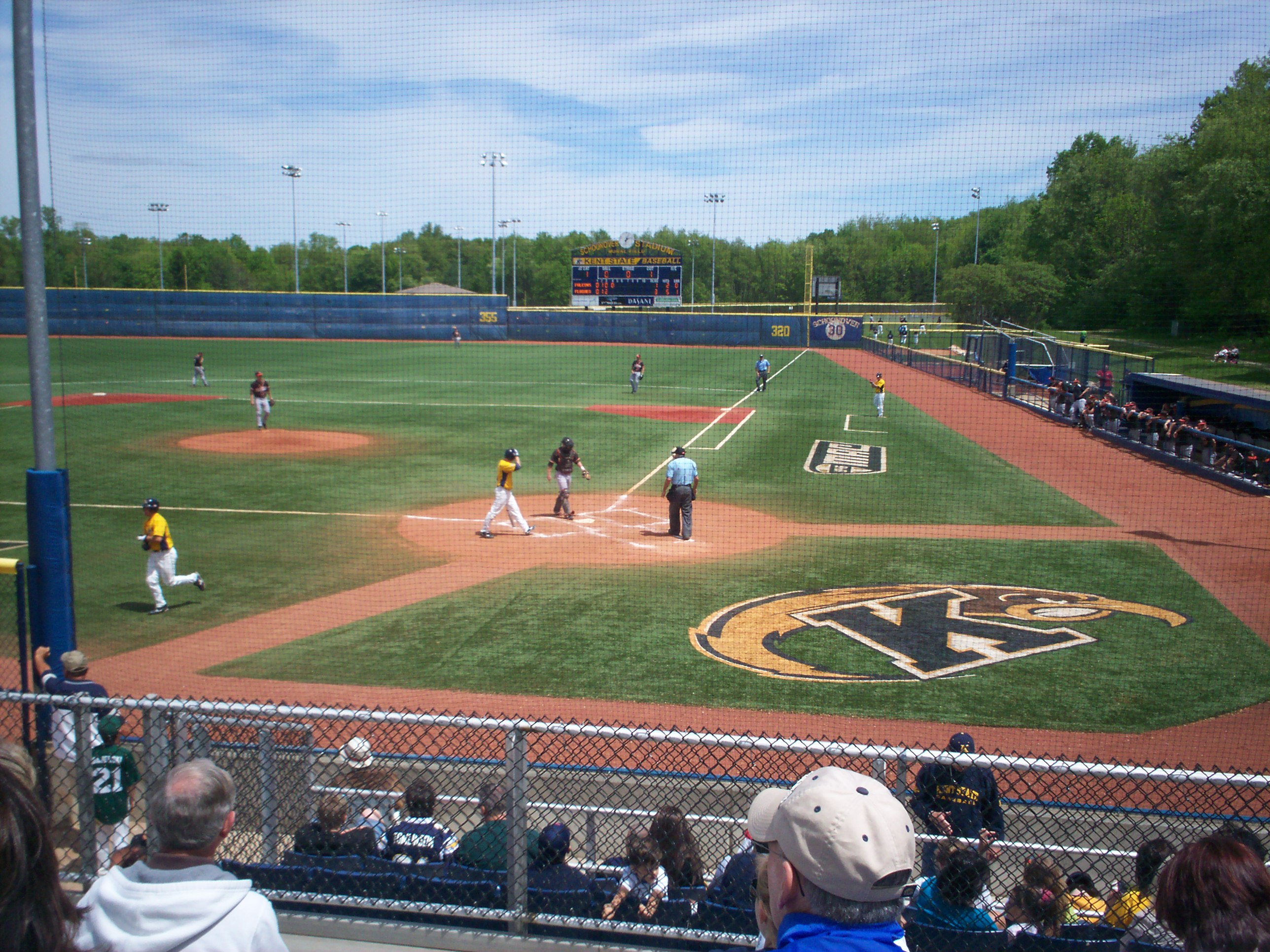 Looking down the right field line towards the scoreboard at Olga Mural Field at Schoonover Stadium, the home field of the Kent State Golden Flashes baseball team in Kent, Ohio.